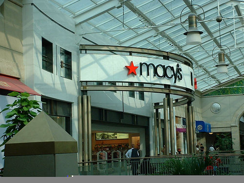 Macy's at Lenox Square, Atlanta.